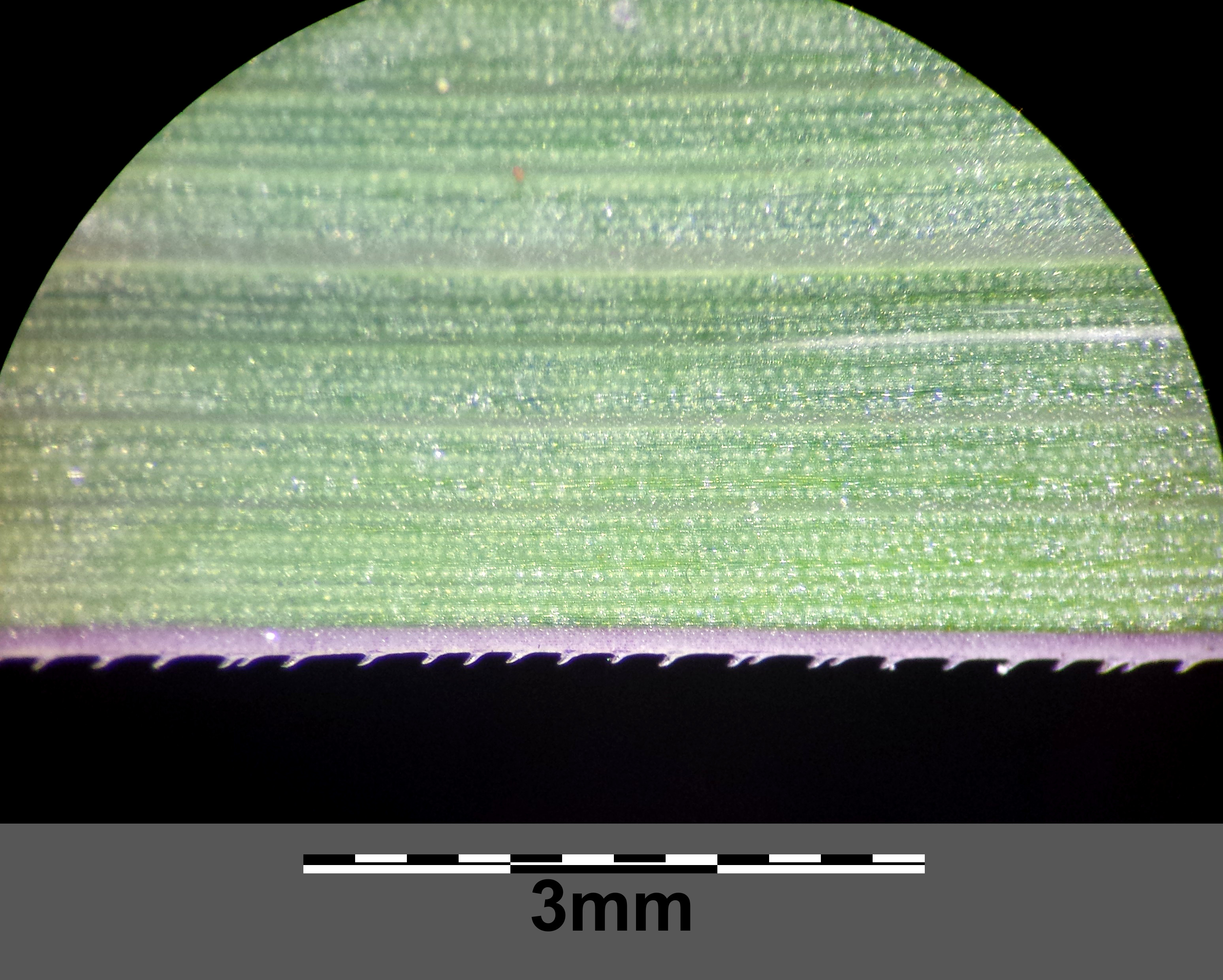 Border of a leaf Taxonym: Phleum phleoides ss Fischer et al. EfÖLS 2008 ISBN 978-3-85474-187-9 Location: Waldberg in between Kleinebersdorf und Großrußbach, district Korneuburg, Lower Austria - ca. 334 m a.s.l. Habitat: semi-dry grassland